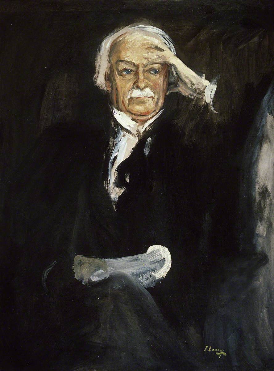 A painting from the Framed Works of Art collection at the National Library of wales.